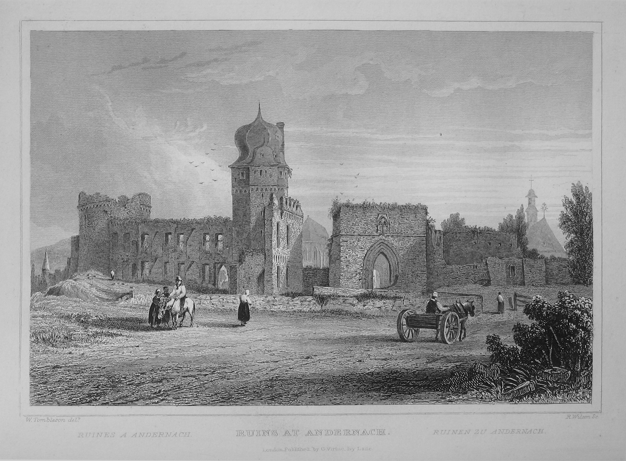 Steel engraving from "Views of the Rhine" by William Tombleson (before 1838): Ruins at Andernach